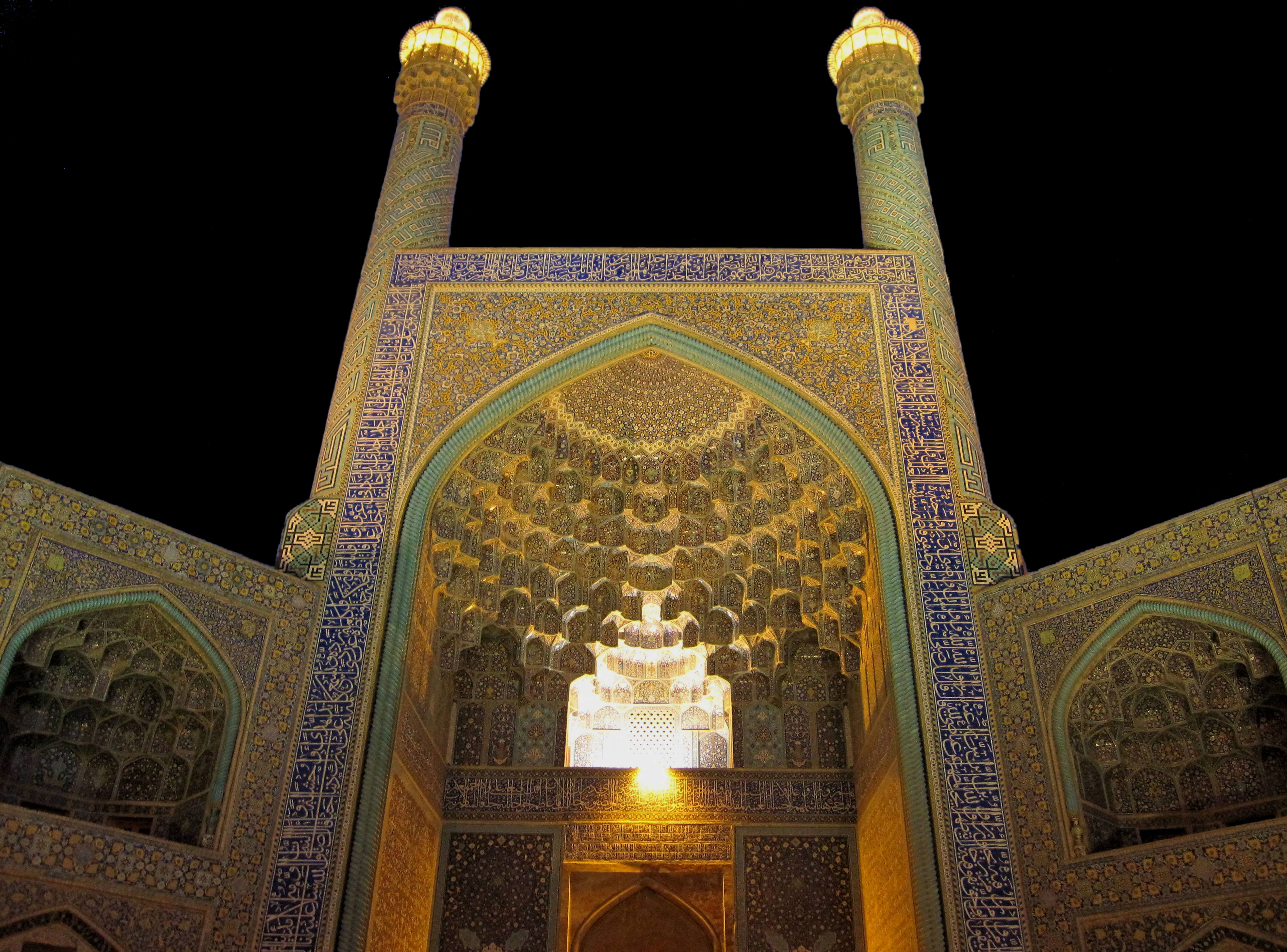 Iran - Isfahan - Naghshe Jahan Sq - King Mosque - Masjed Shah